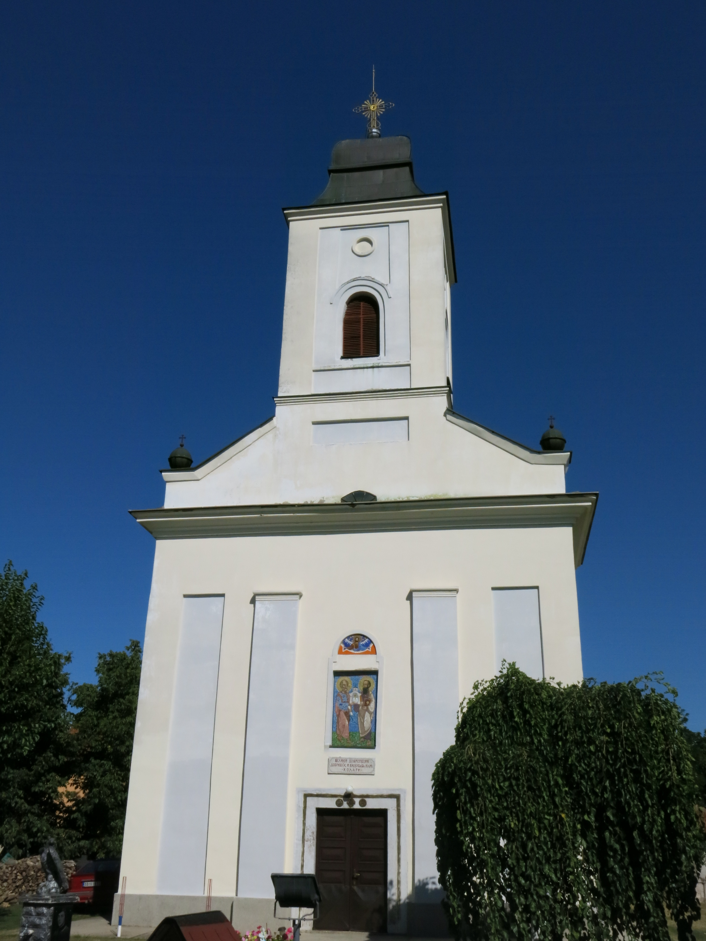 Kolari, Church of the Holy Apostles Peter and Paul